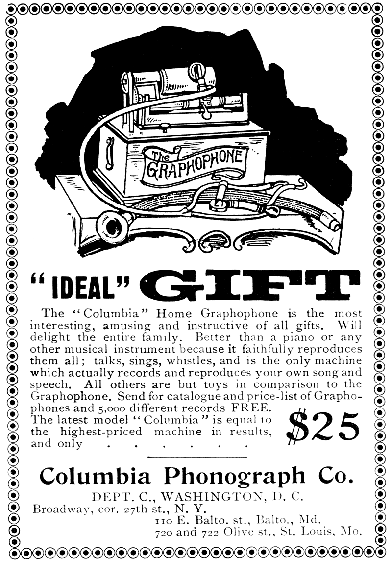 Advertisement for the Columbia Graphophone (Type A)